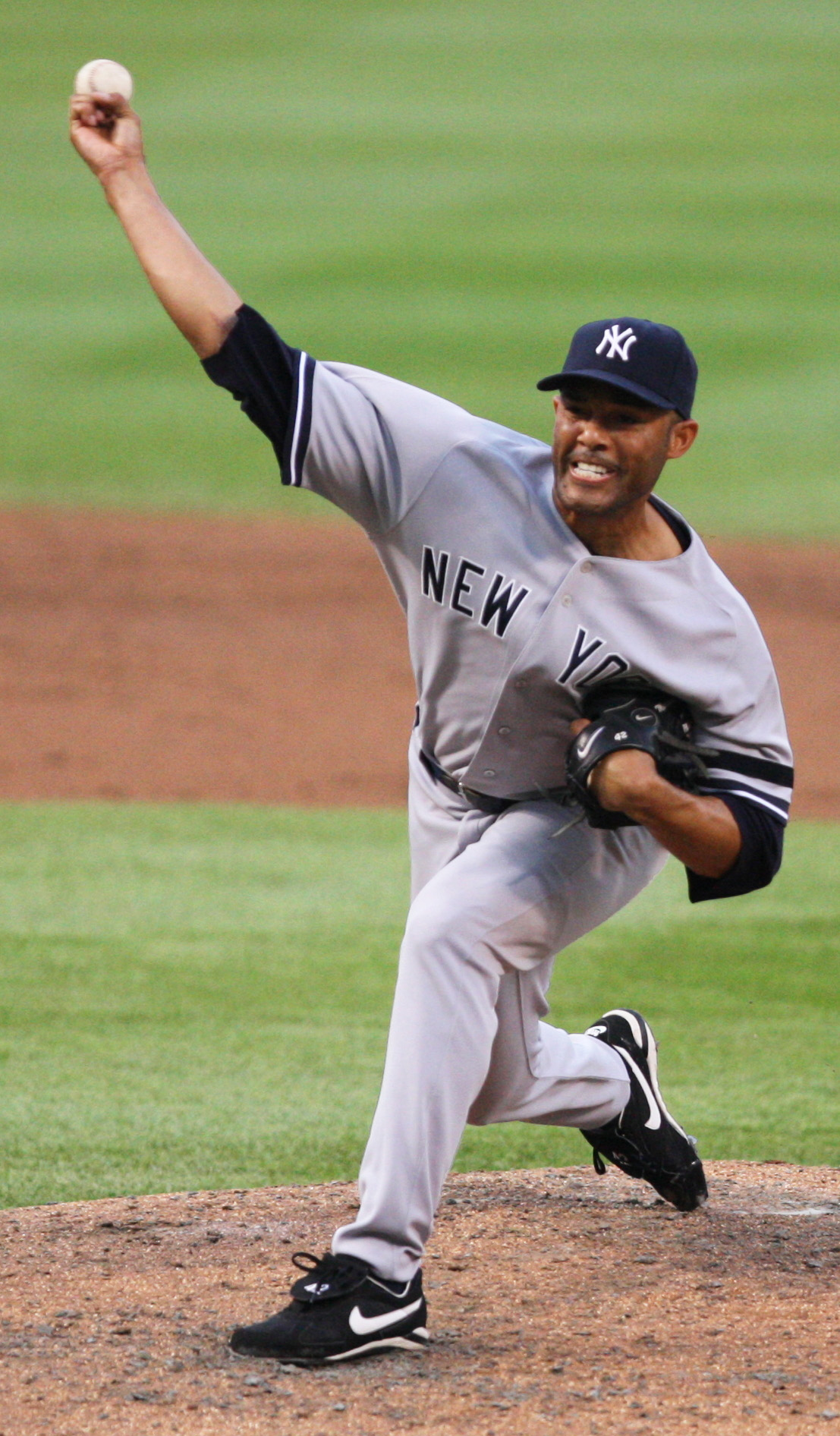 Mariano Rivera throws a pitch against the Baltimore Orioles in 2007.